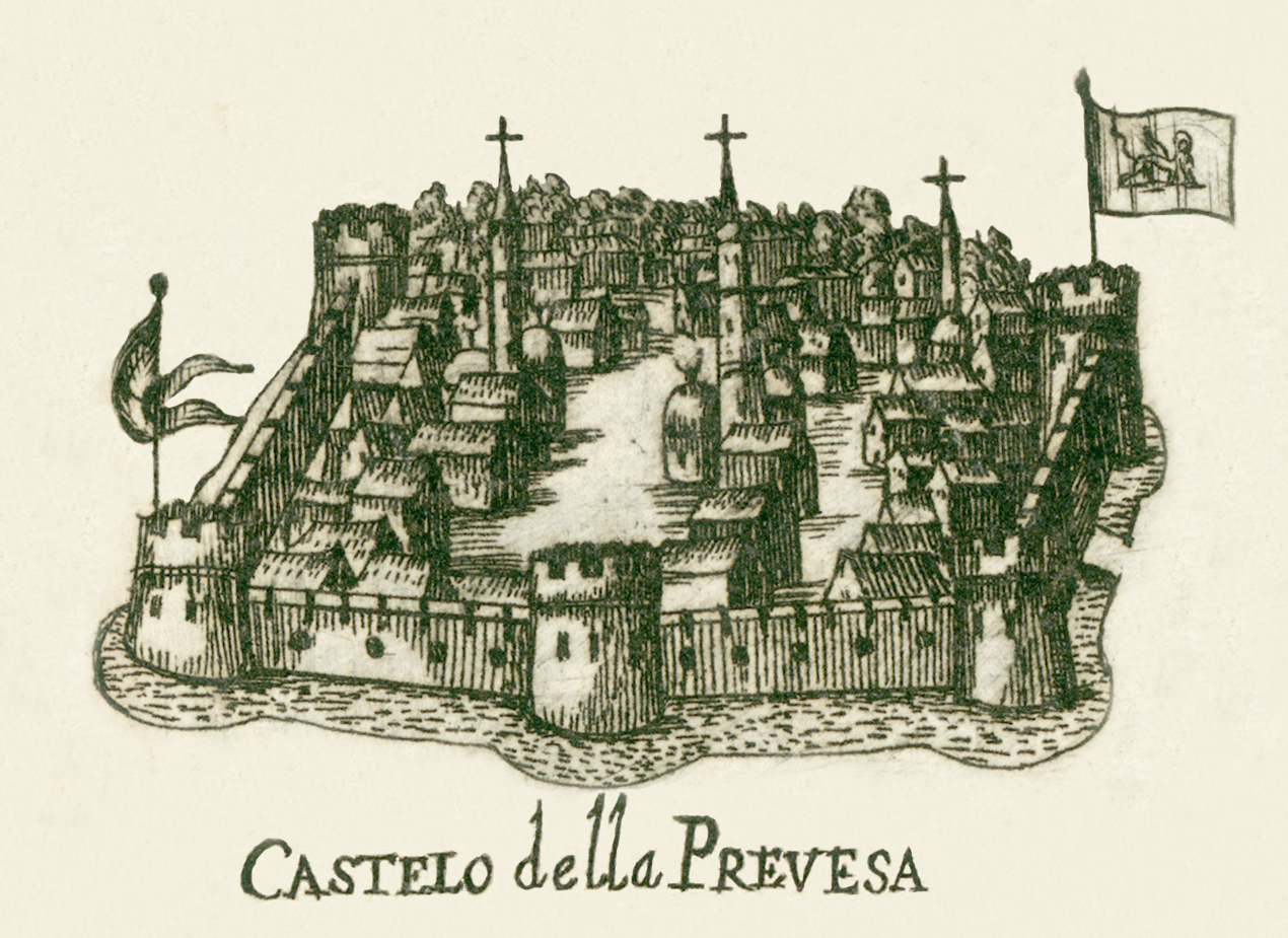 Etching of the Castle of Bouka, Preveza, after its conquest by the Venetians in 1684. Copper engraving by Giuseppe Longhi, 1684 c. Nikos D. Karabelas map collection, Actia Nicopolis Foundation, Preveza, Greece.